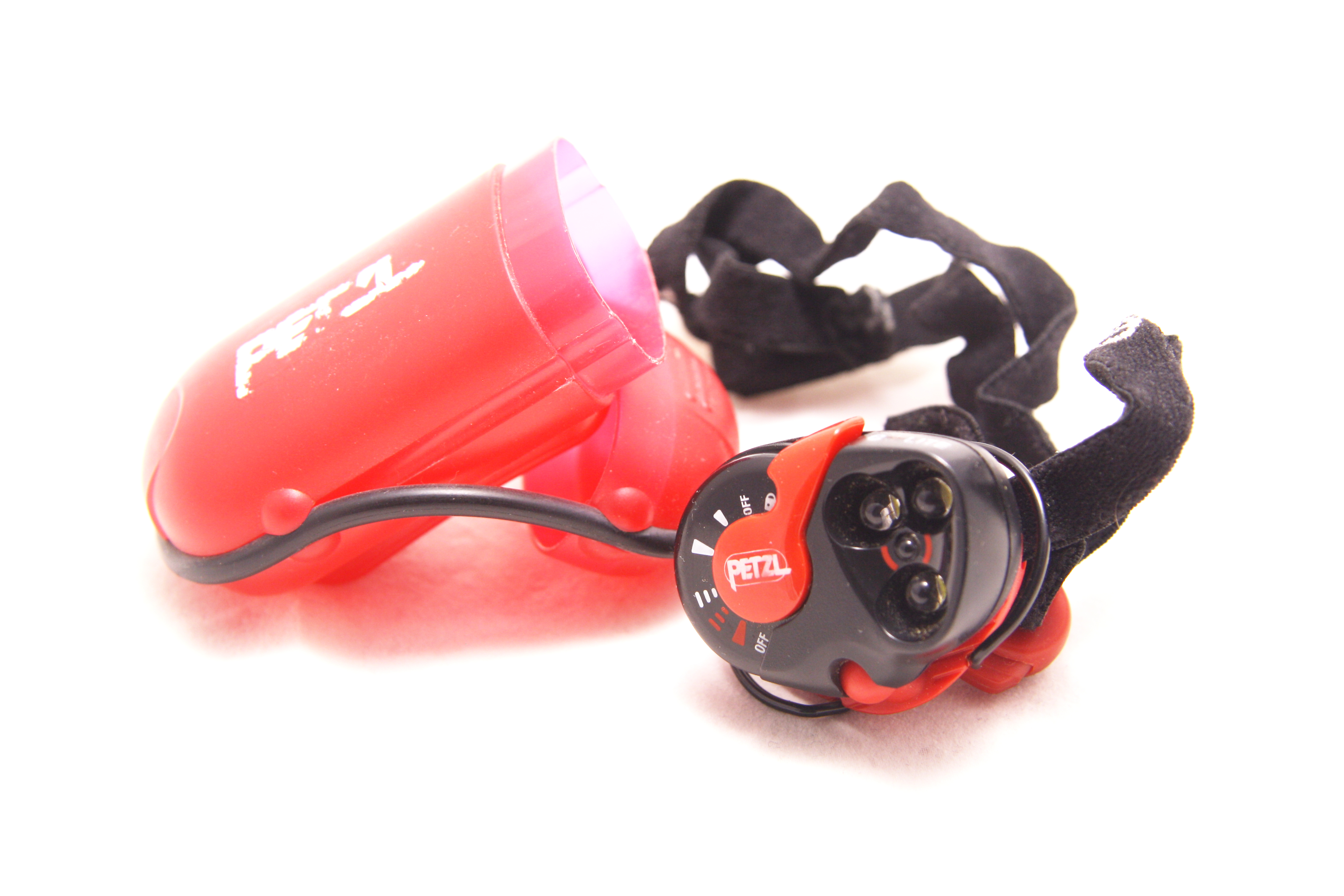 Head Lamp Petzl e+Lite with case.